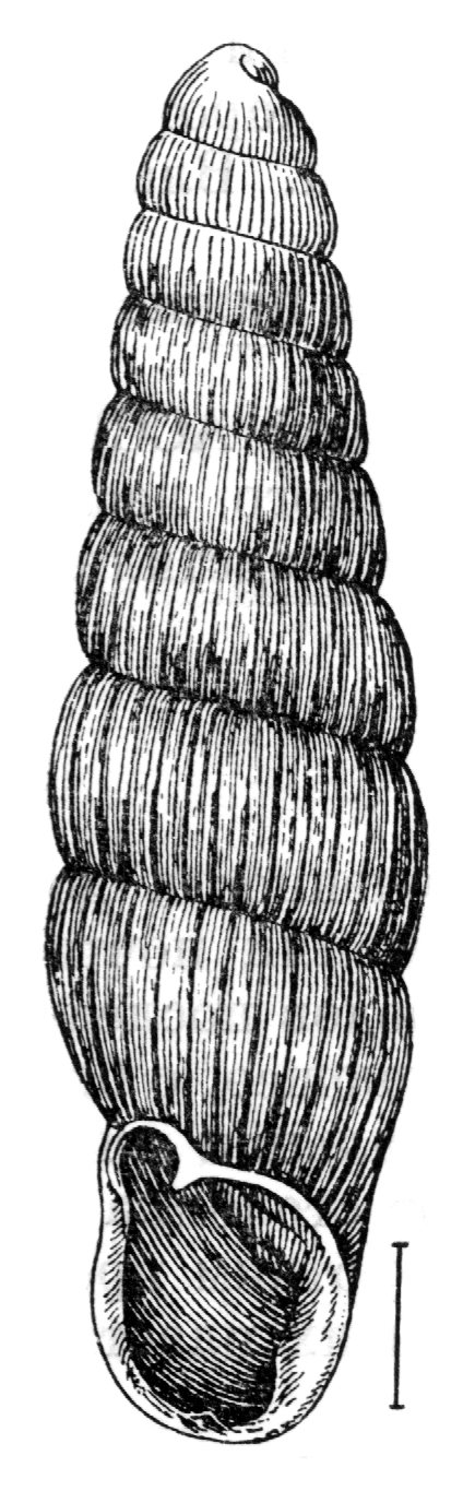 drawing of Ruthenica filograna